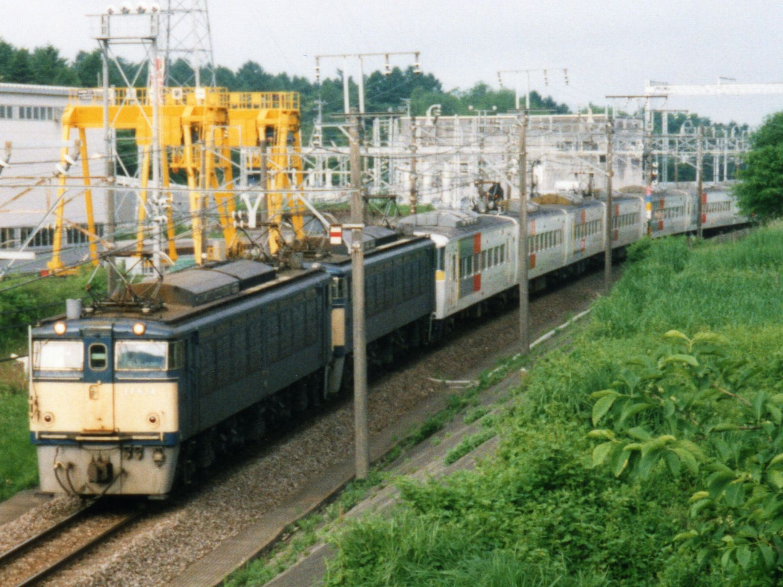 JR East EF63 electric locomotives and 185 series EMU on Shin'etsu Main Line between Yokokawa and Karuizawa